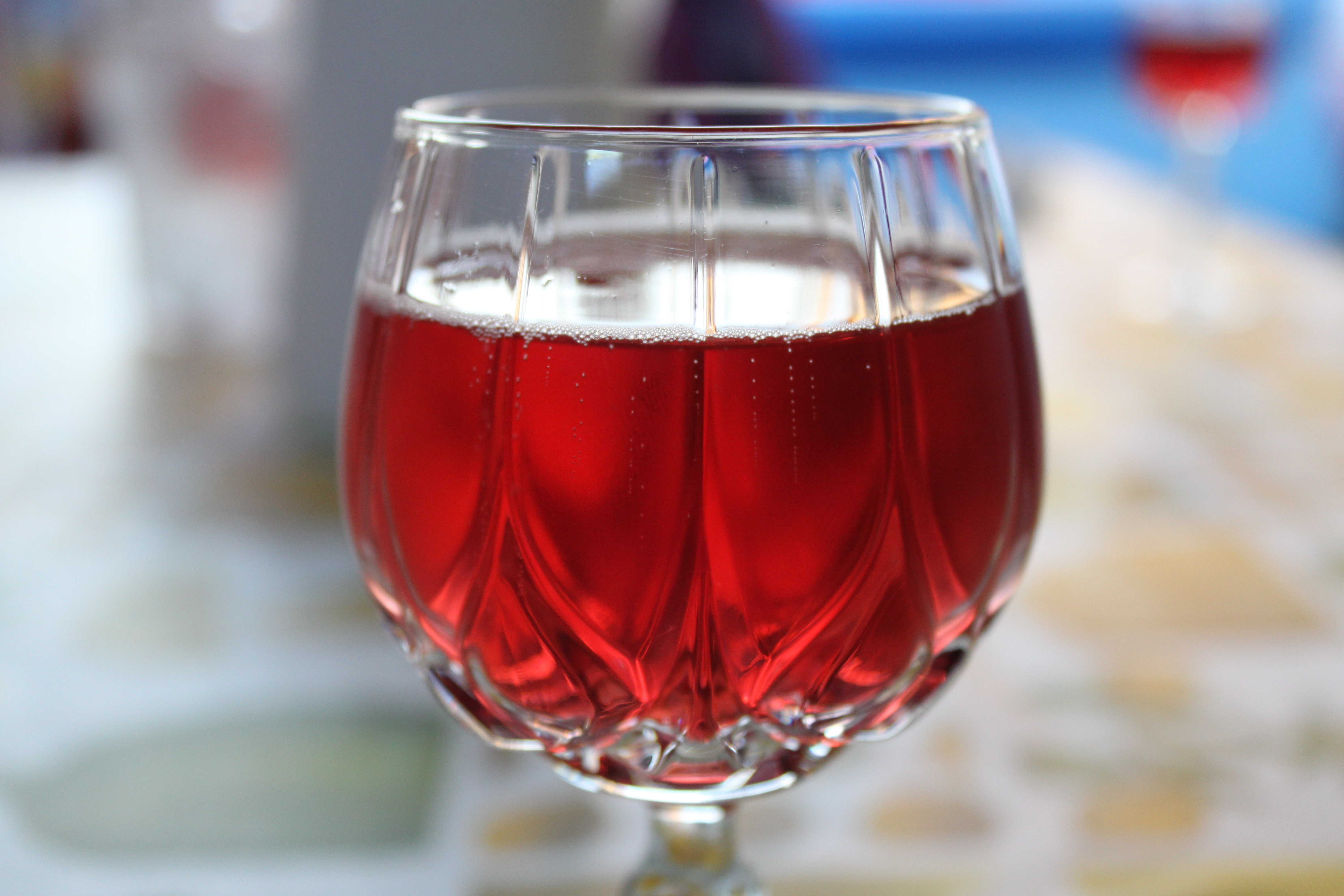 A glass of the semi-sparkling Italian rose wine, Lambrusco from the Emilia-Romagna region.